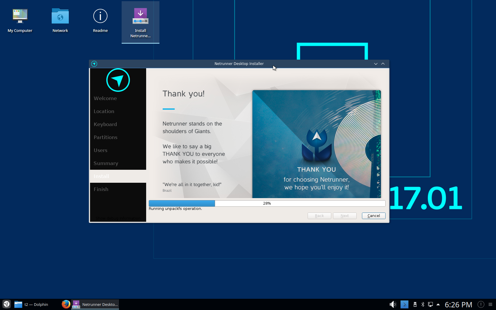 Netrunner 17.01 Desktop Installation Screenshot